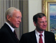 Supreme Court nominee John Roberts, Jr., met for more than an hour with Sen. Hatch to discuss the upcoming nominations process.